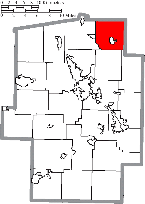 Map of the municipal and township boundaries of Tuscarawas County, Ohio, United States, as of the 2000 census, with the location of Sandy Township highlighted. Township borders are shown only in unincorporated areas in order to differentiate incorporated and unincorporated areas more clearly.